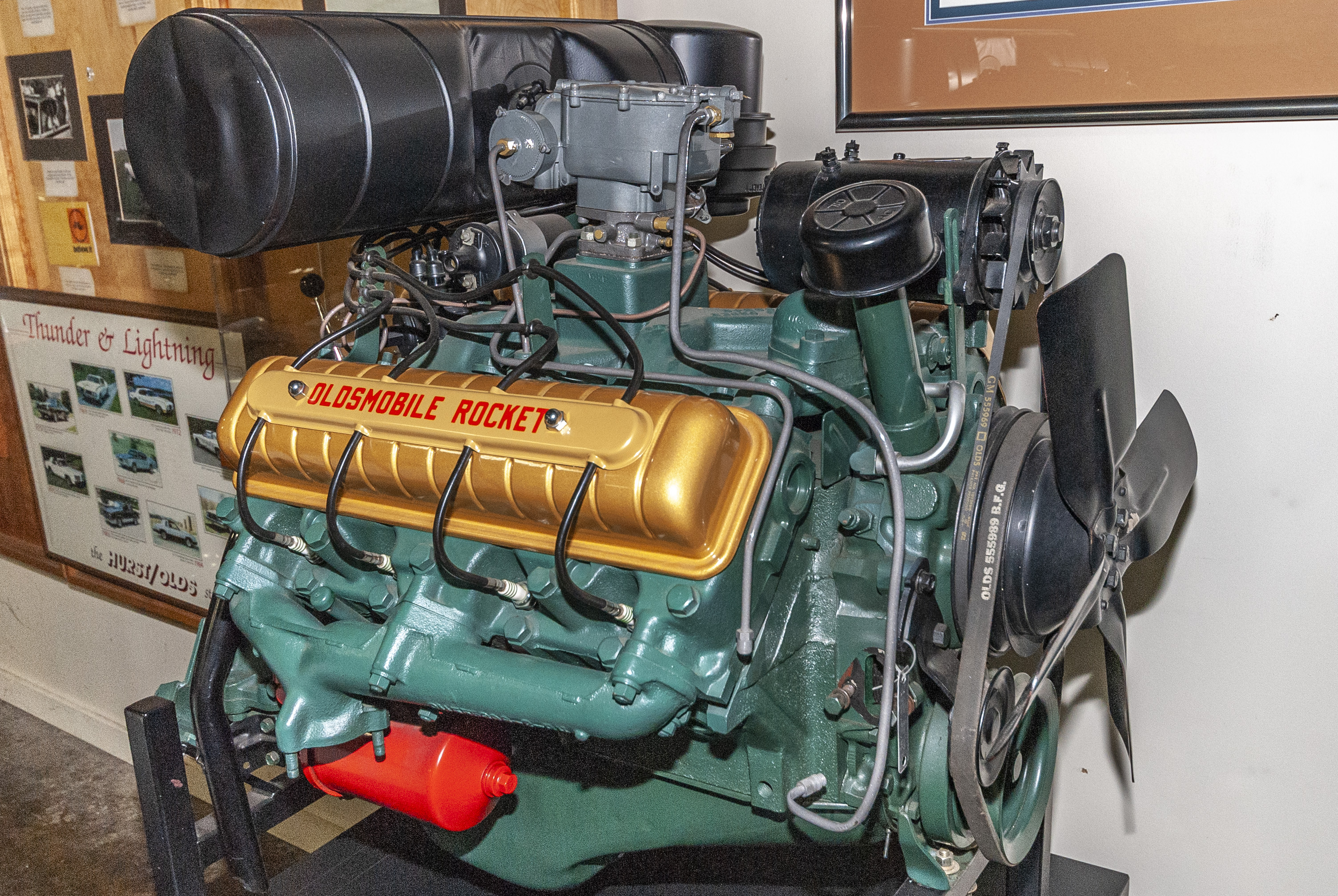 Oldsmobile Rocket V-8 303 c.i (5L) gasoline engine on display at the REO Museum in Lansing, MI